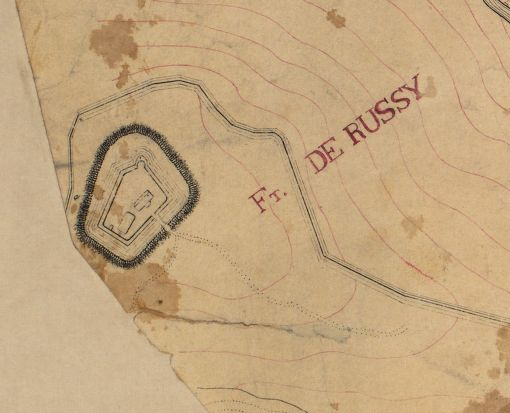 "1st September 1863." Relief shown by contours. Some buildings, lot lines, householders' names, forts, and vegetation. Covers environs of Forts De Russy, Stevens, Slocum, Totten, Slemmer, Bunker Hill, Saratoga, Thayer, Lincoln, and Batteries Sill and Jameson. India and red inks. Lacking edge and internal sections, assembled to 1 sheet, sectioned to 4 sheets, and mounted on cloth backing. Includes notes and 2 scale graphs. "189. L. sheet 1." LC Civil War maps (2nd ed.) 680 Available also through the Library of Congress Web site as a raster image. Vault DCP